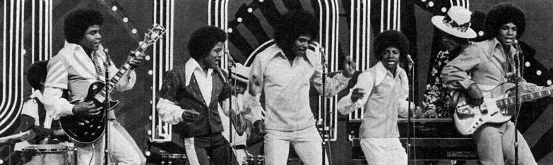 Photo of The Jackson 5 performing on the television program Soul Train.